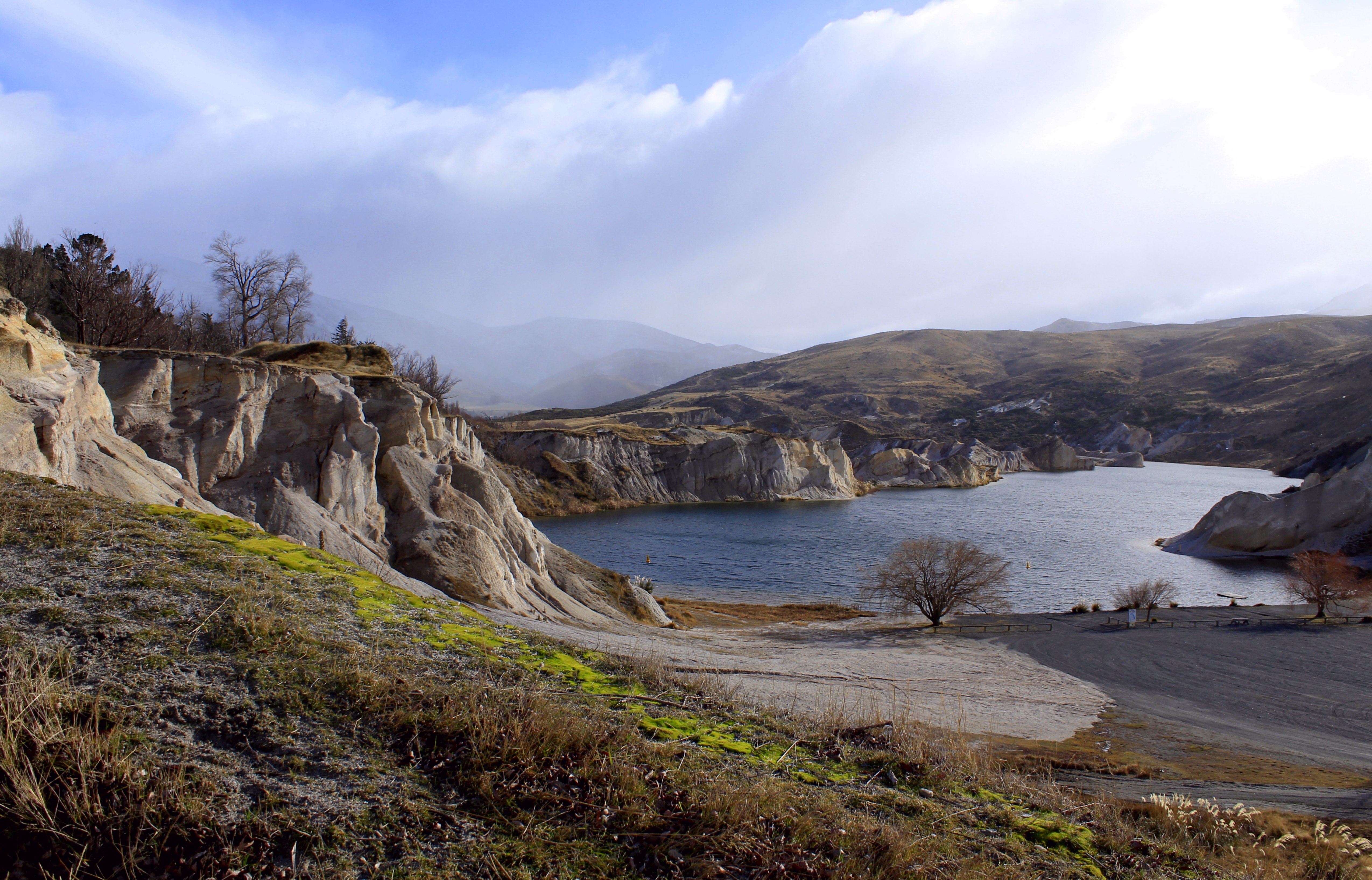 Blue Lake near the town of Saint Bathans in Central Otago, New Zealand.